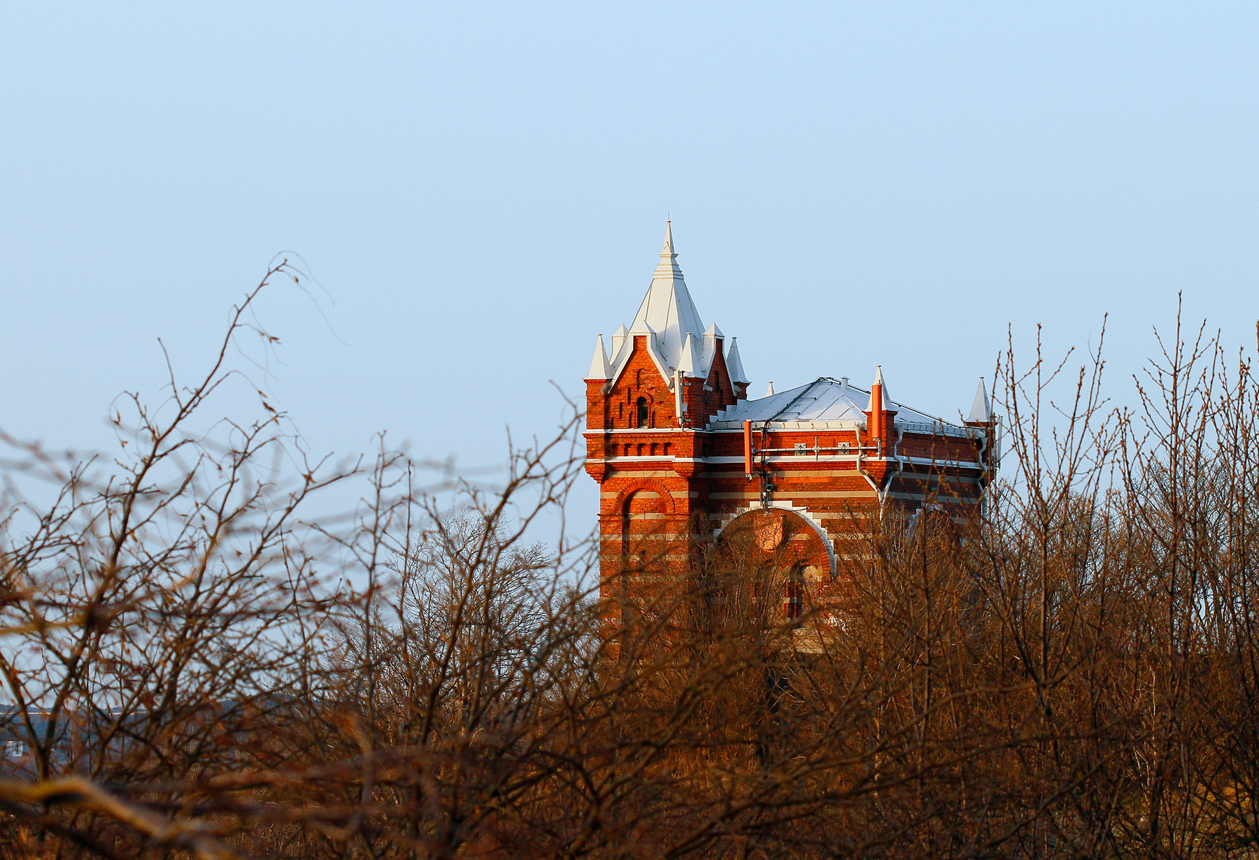 Landala watertower